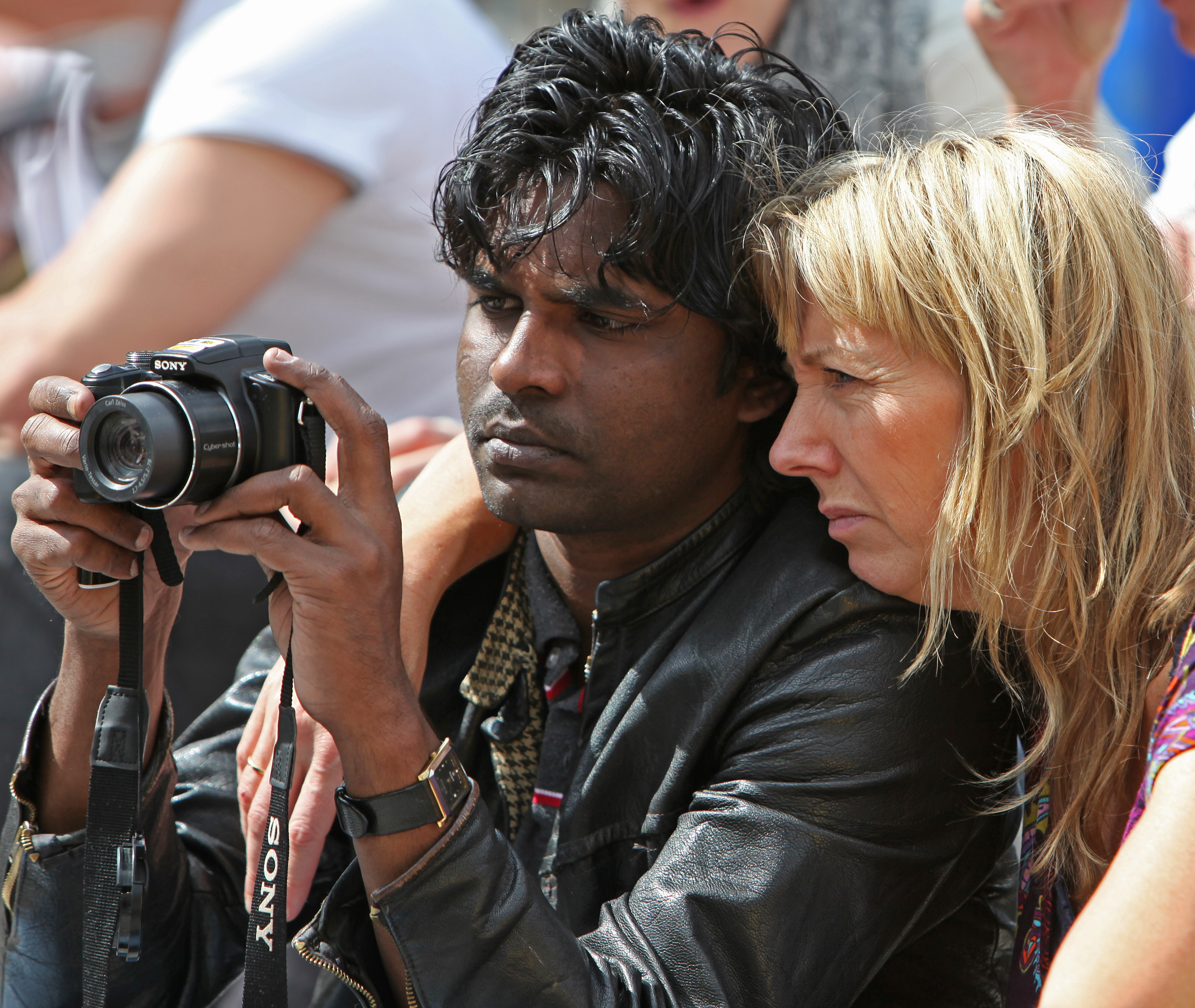 "A picture is worth a thousand words"